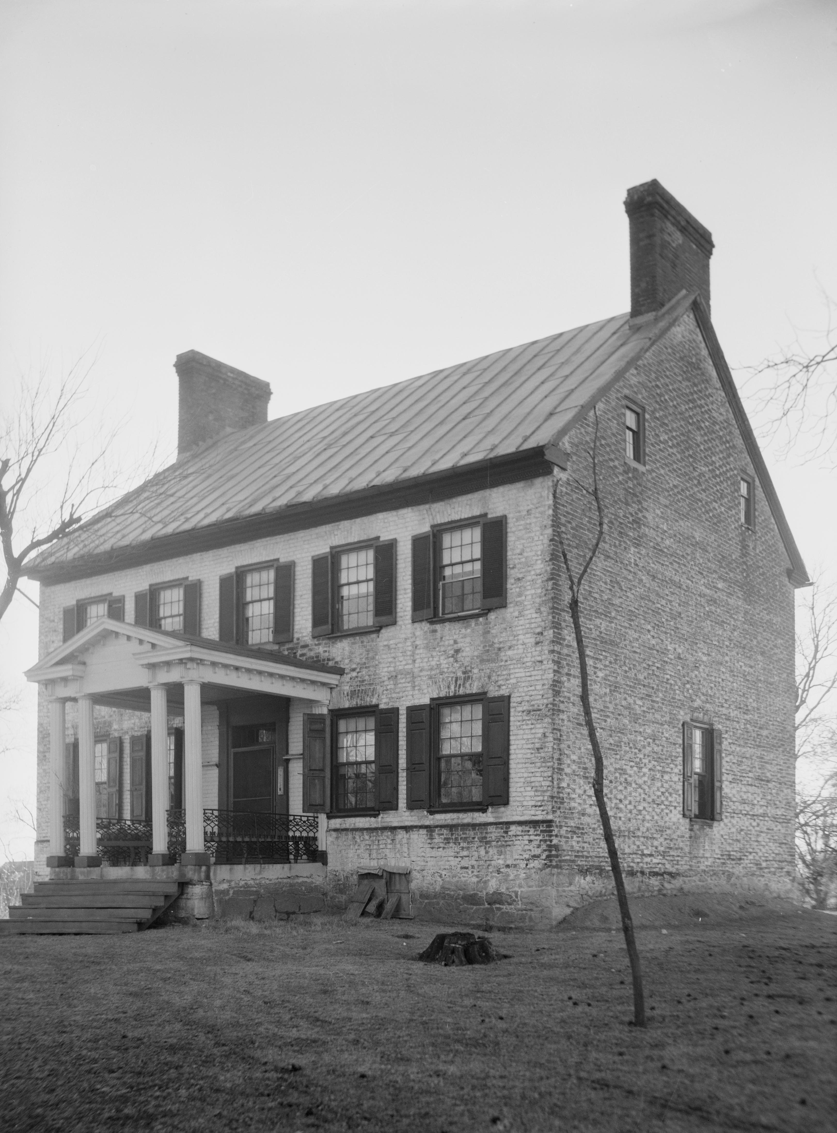 Front and side of Elmwood, located off County Road 17 south of Shepherdstown in Jefferson County, West Virginia, United States. Built in 1797, it is listed on the National Register of Historic Places.